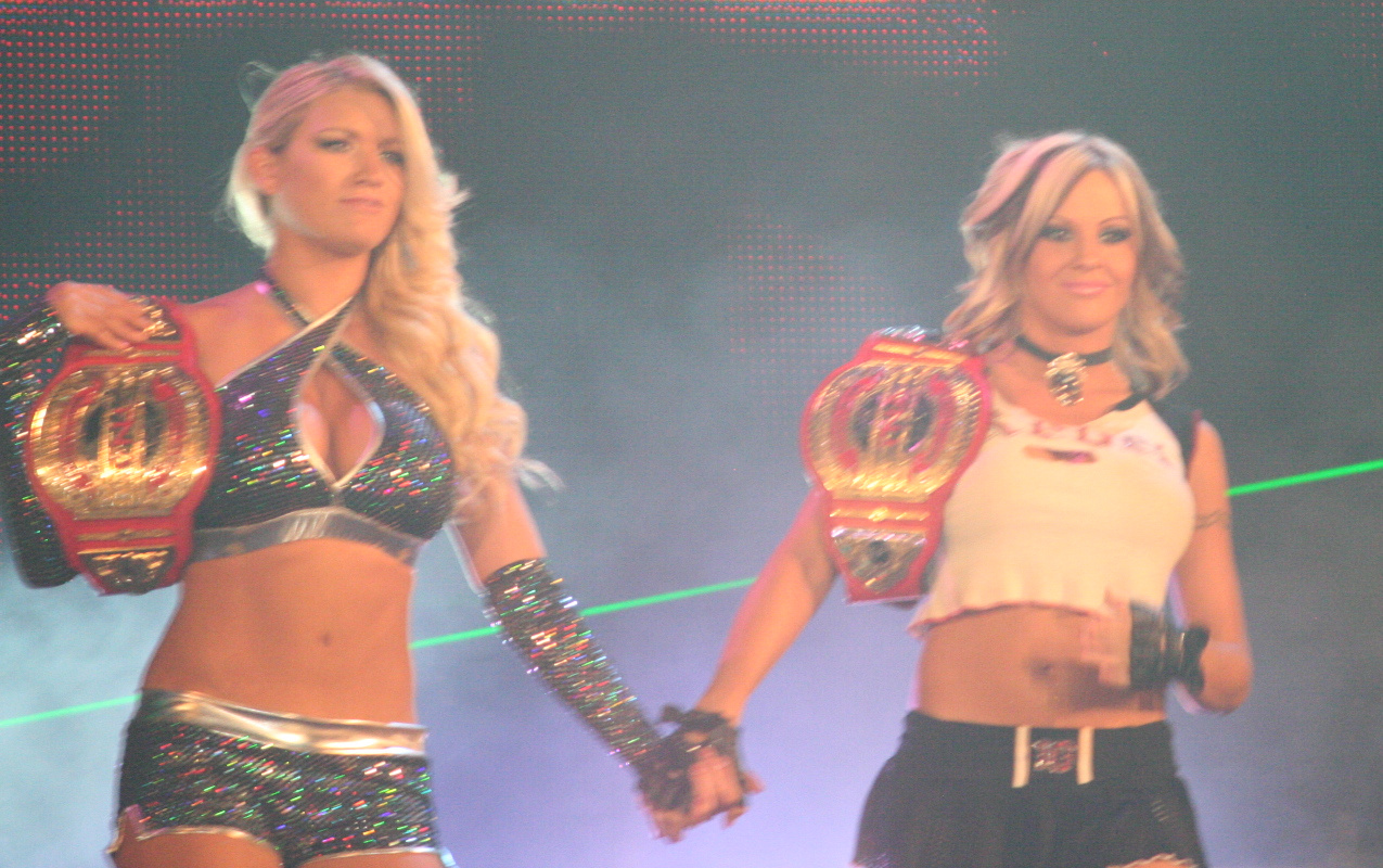 Professional wrestlers Lacey Von Erich and Velvet Sky at a TNA Impact! taping